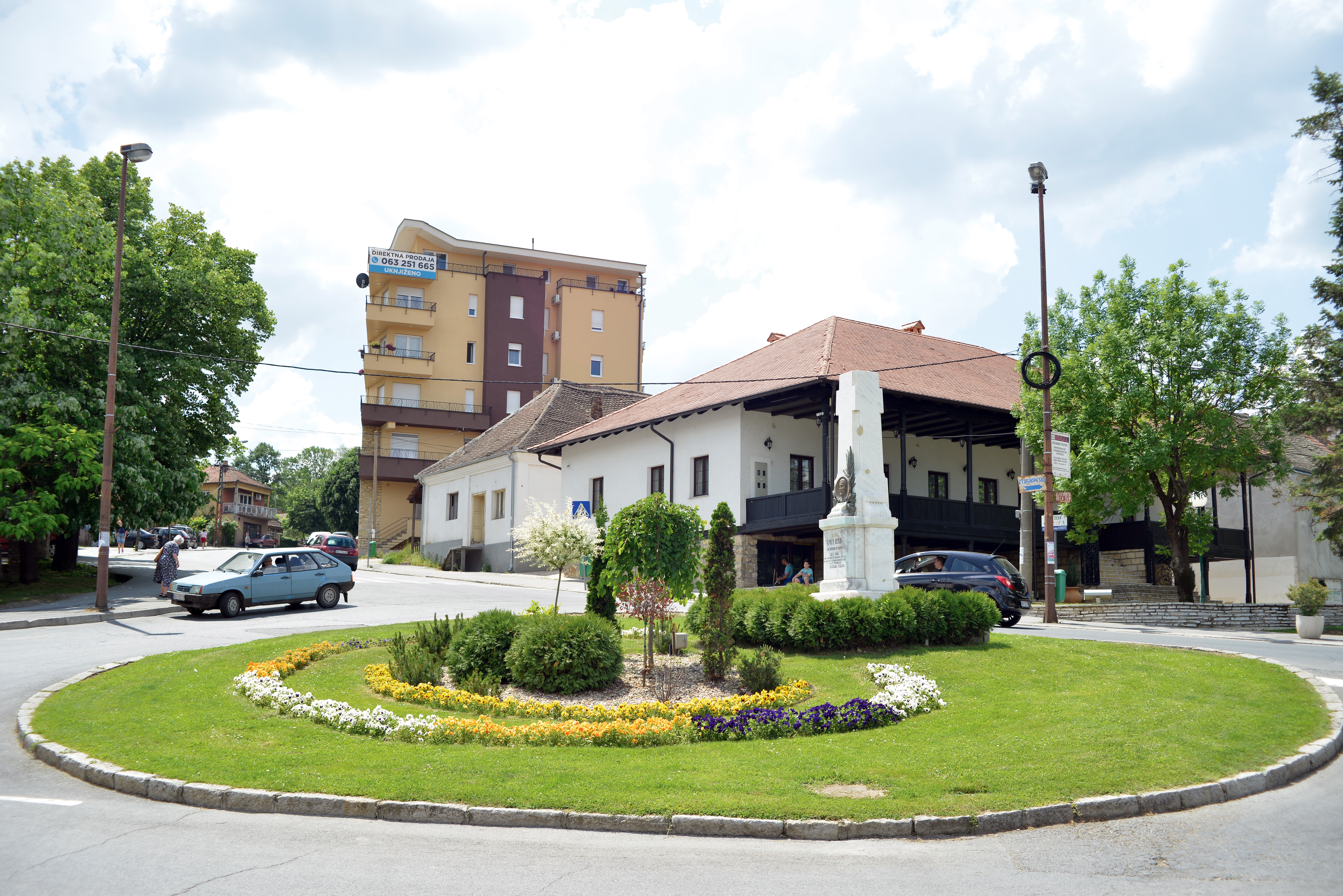 City center of Sopot, a municipality of the city of Belgrade (Serbia) with monument to former deputy Djura Prokic (1873-1914), killed in the First World War